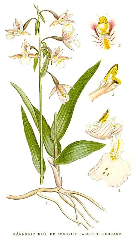 Epipactis palustris (L.) Crantz, syn. Helleborine palustris (L.) Schrank Original Description Kärrknipprot, Helleborine palustris (L.) Schrank